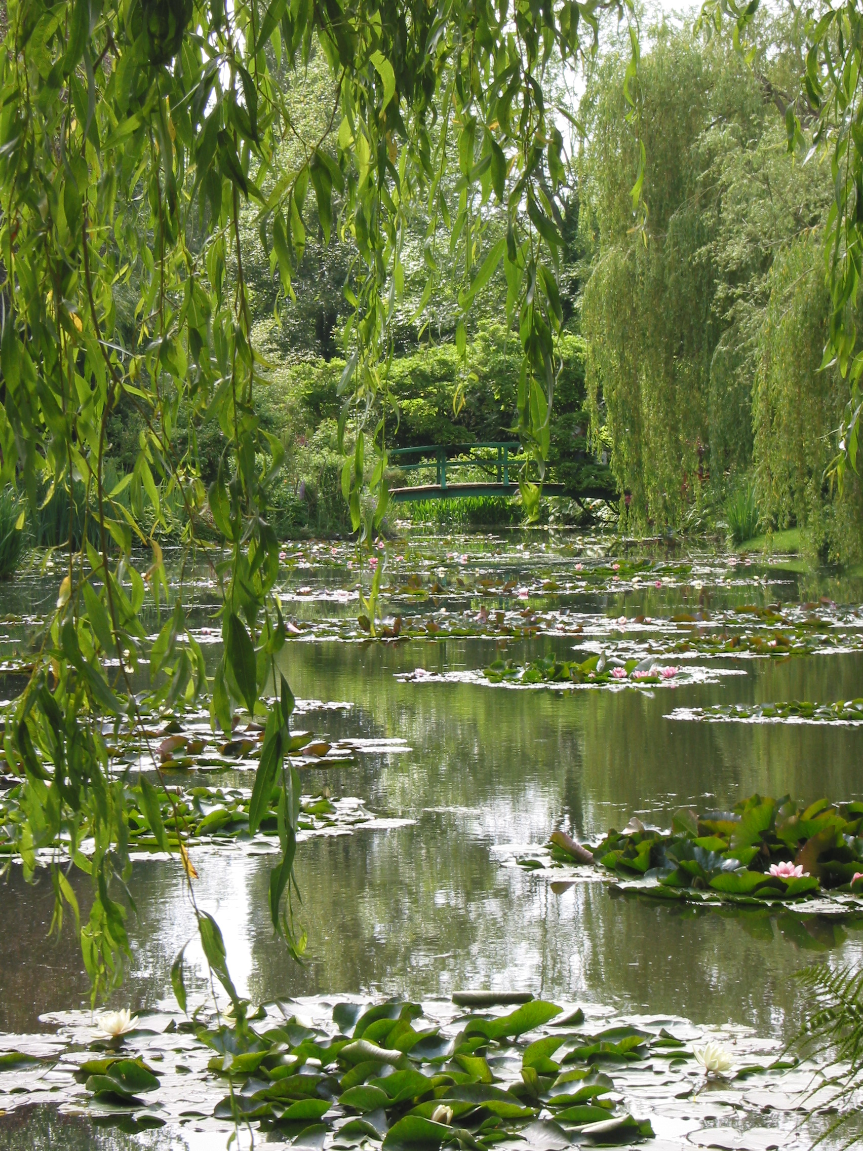 Monet's garden at Giverny